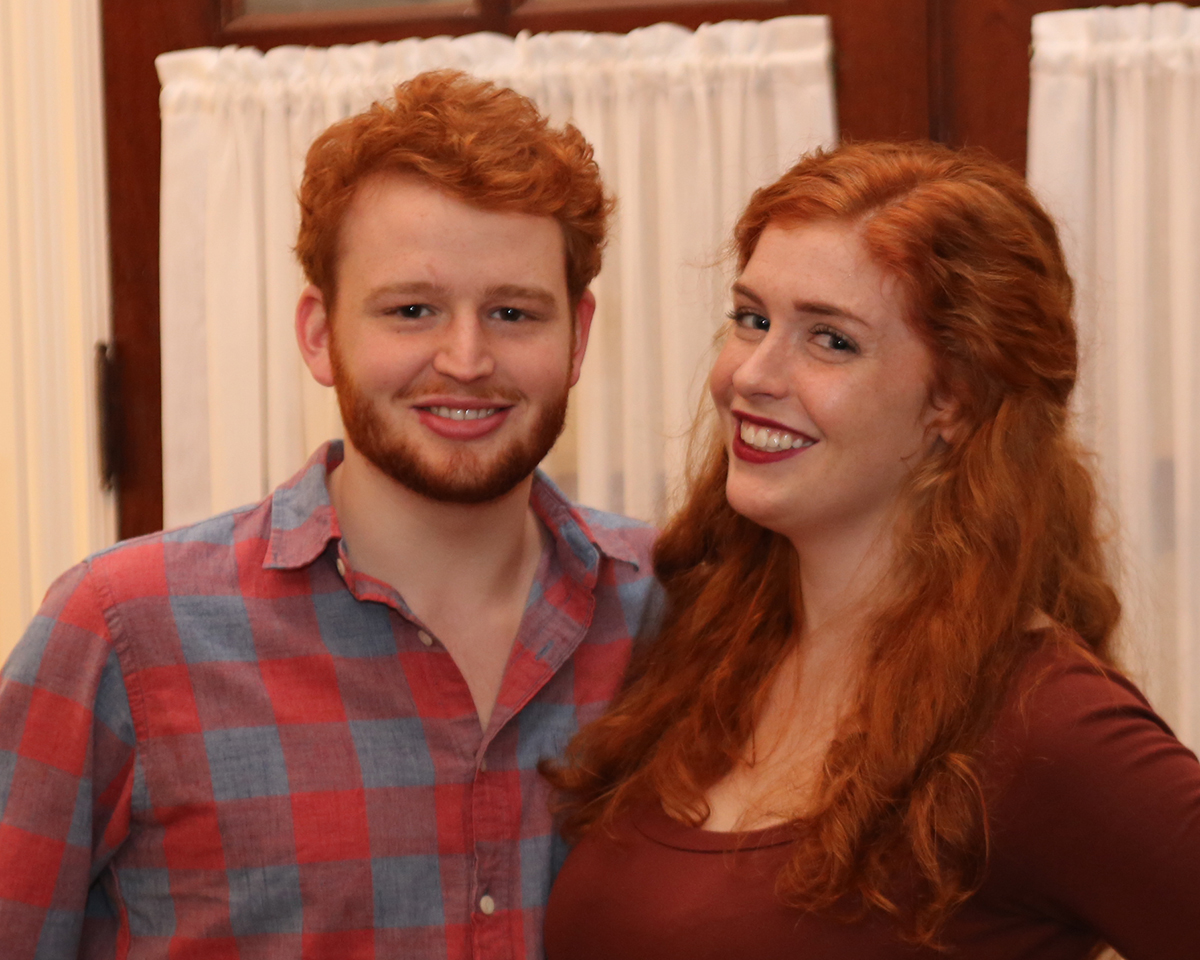 Fraternal twins with red hair.